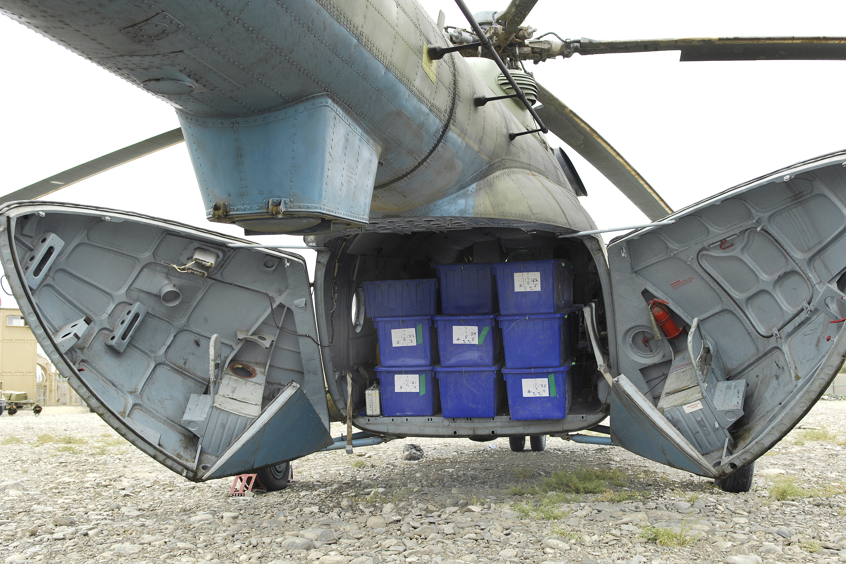 An Afghan National Army Air Corps Mi-17 is loaded to capacity in Sharana, Afghanistan, Aug. 16, 2009, with election ballots for its next delivery. During a two-day period, Afghan pilots delivered ballots, polling kits, tables and chairs to remote Afghan locations to support the elections.